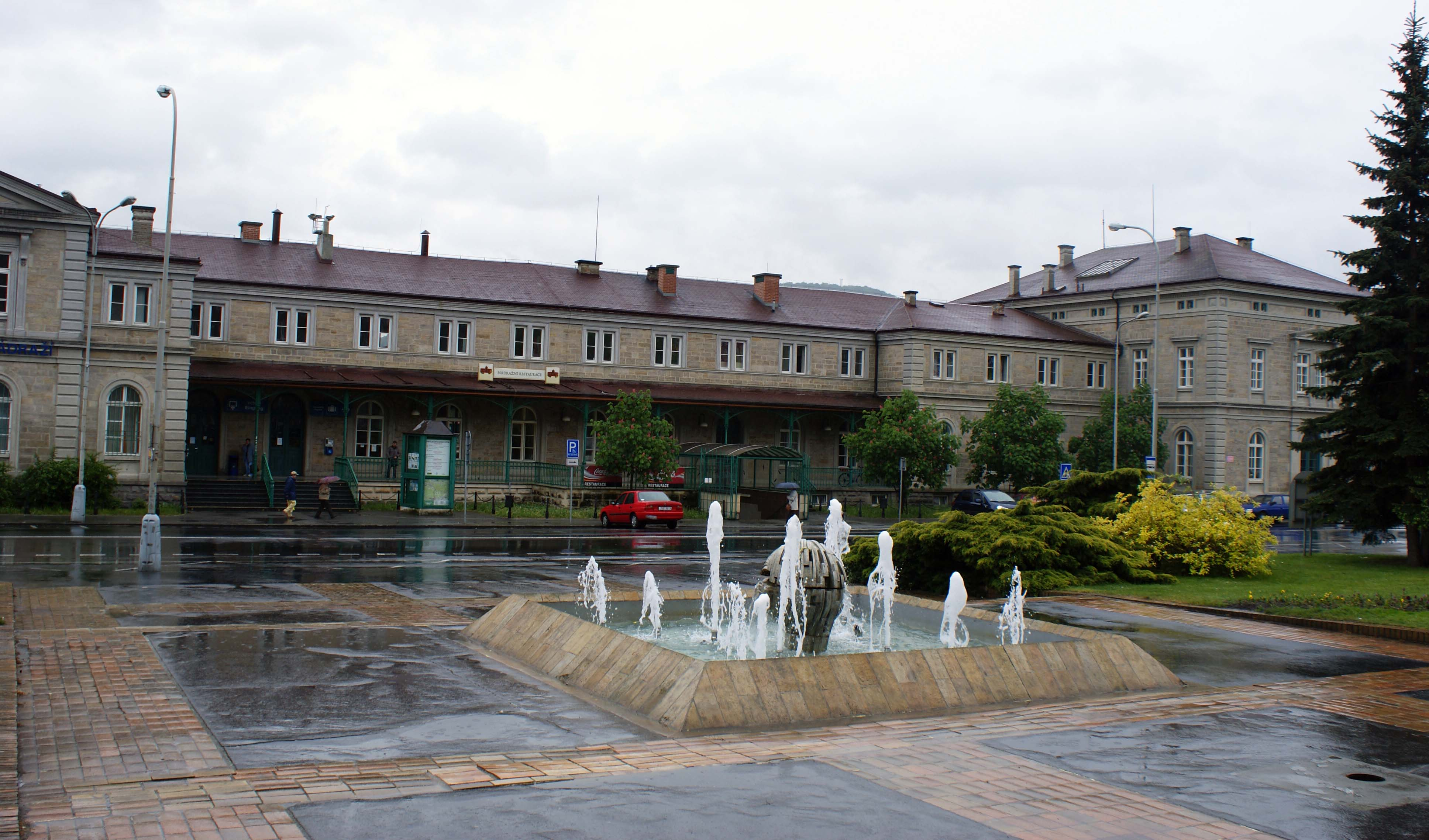 Decin main rail station Česky: Děčín hl.n